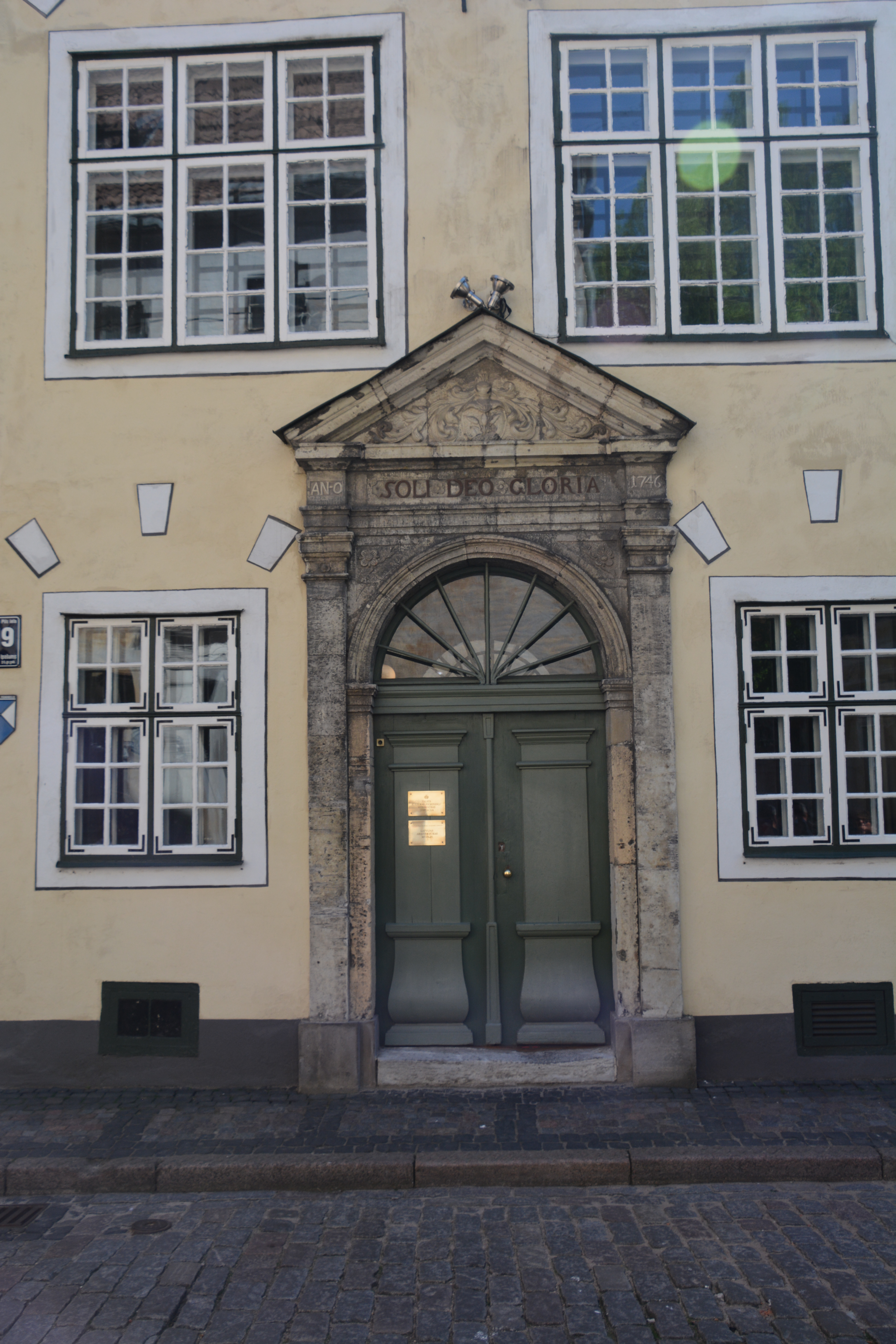 Entrance to Latvia Architecture Museum, Riga